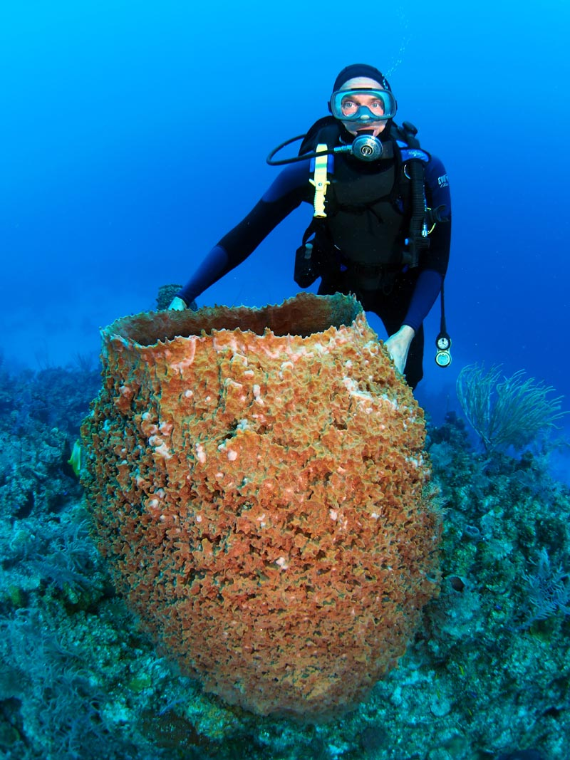 Joseph Pawlik with Xestospongia muta